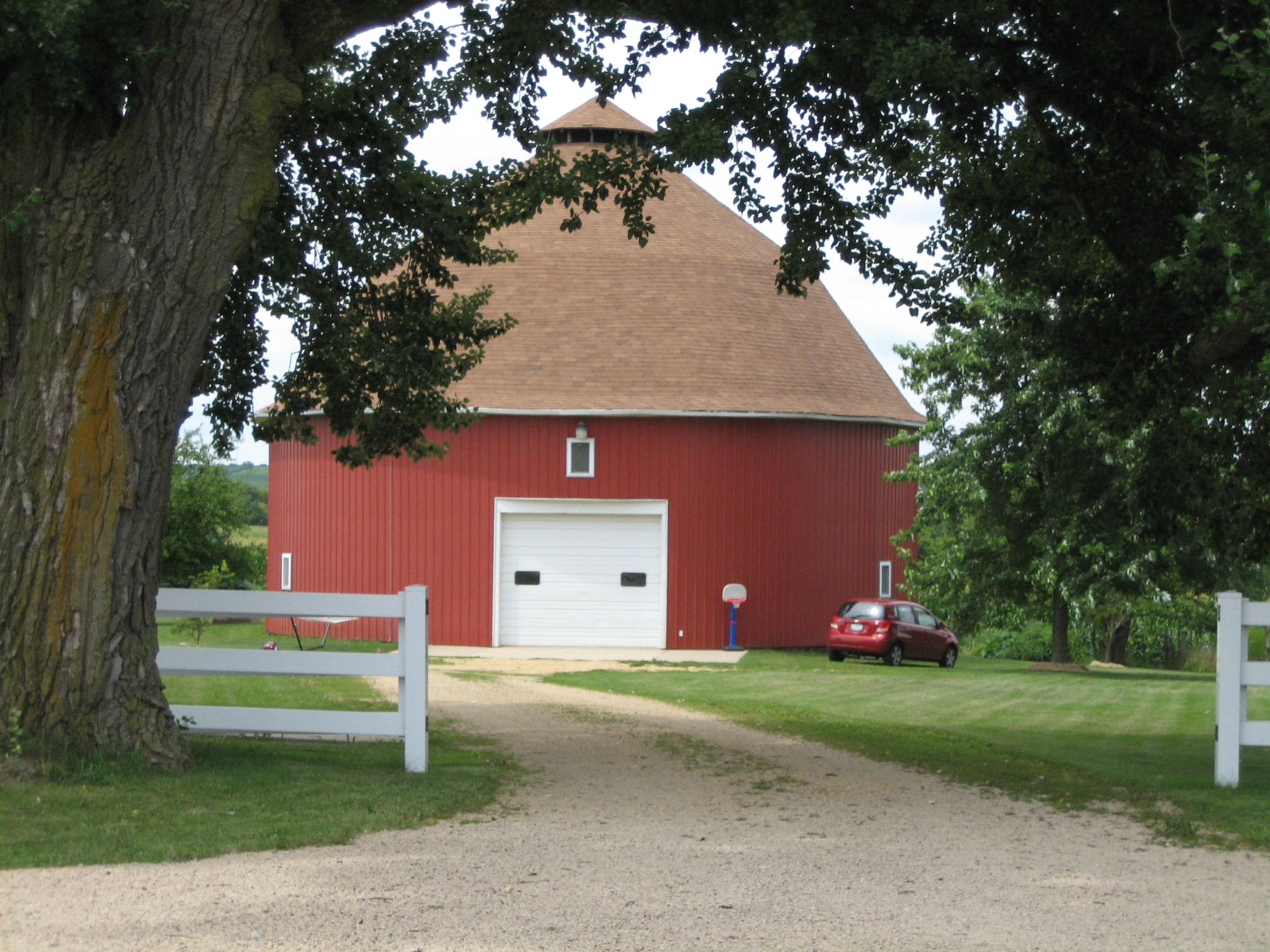 Dennis Otte Round Barn, near Eleroy, Illinois, USA, off of U.S. Route 20.